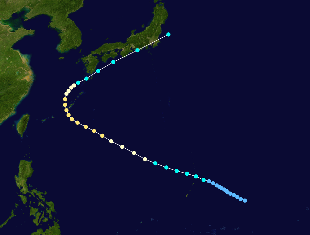 Typhoon Hattie 1990 track. Uses the color scheme from the Saffir-Simpson Hurricane Scale.